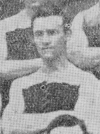 Photo of Jim Opie dated between 1902 and 1905